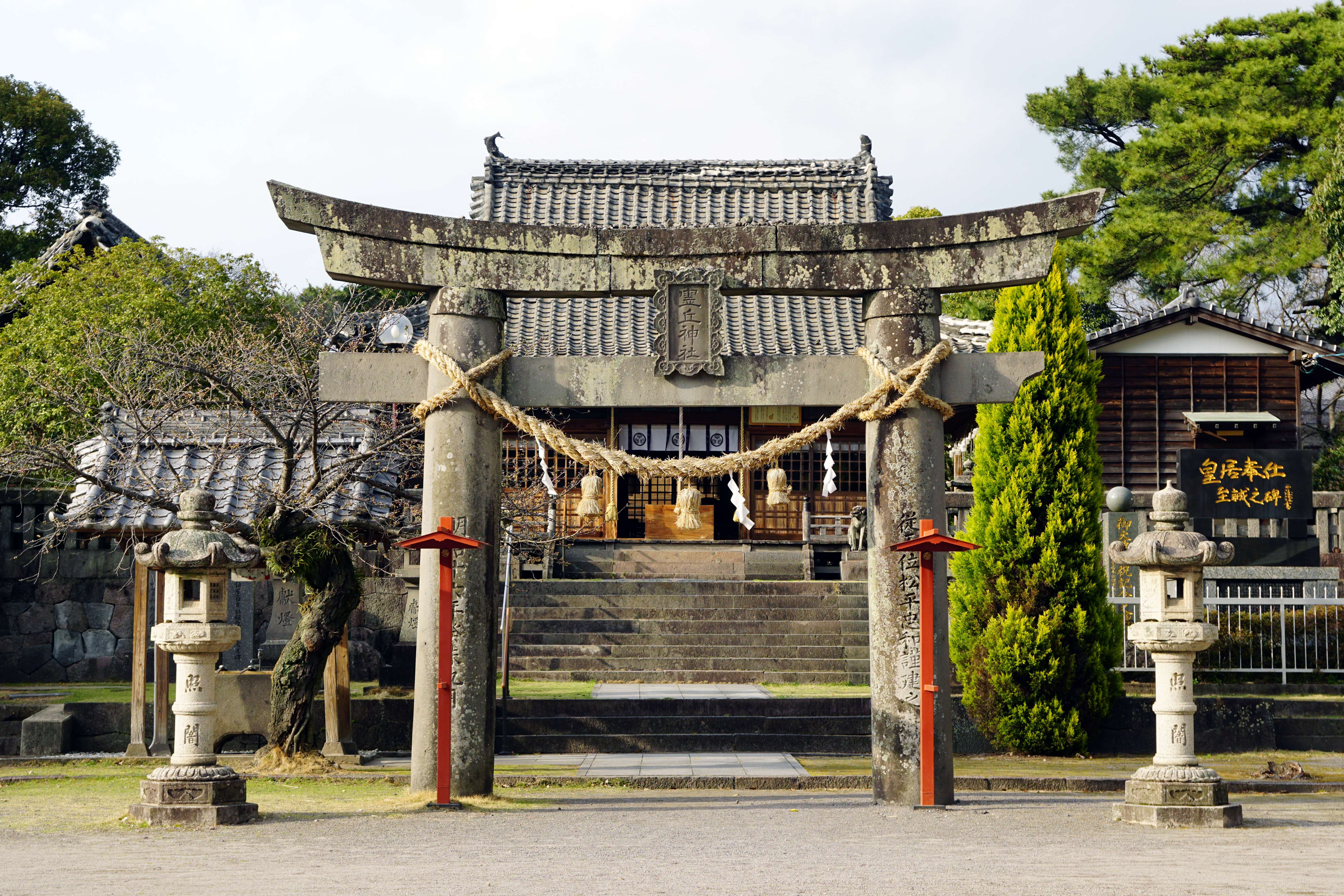 Reikyu-jinja in Shimabara, Nagasaki prefecture, Japan.